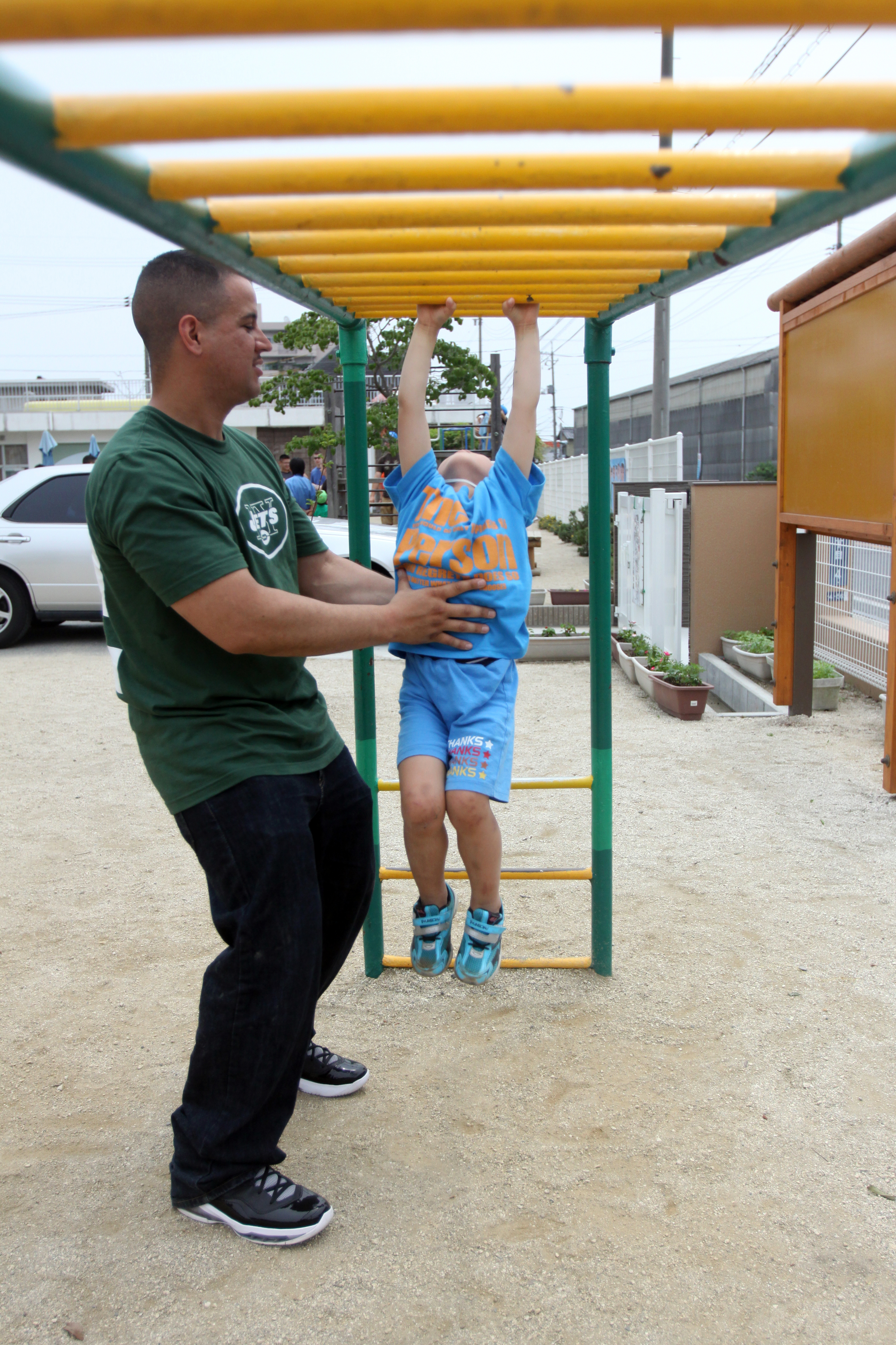 Hugo Giraldo, community relations volunteer, helps a child across a monkey bar during a community relations event at the Higashi Hoikuen Preschool in Iwakuni June 15, 2012. After the official relay was concluded, the children grabbed several of the volunteers and took them to different points on the playground. At the morning's conclusion, the children said goodbye in Japanese and for the volunteers to come again. The volunteers replied back saying they would.